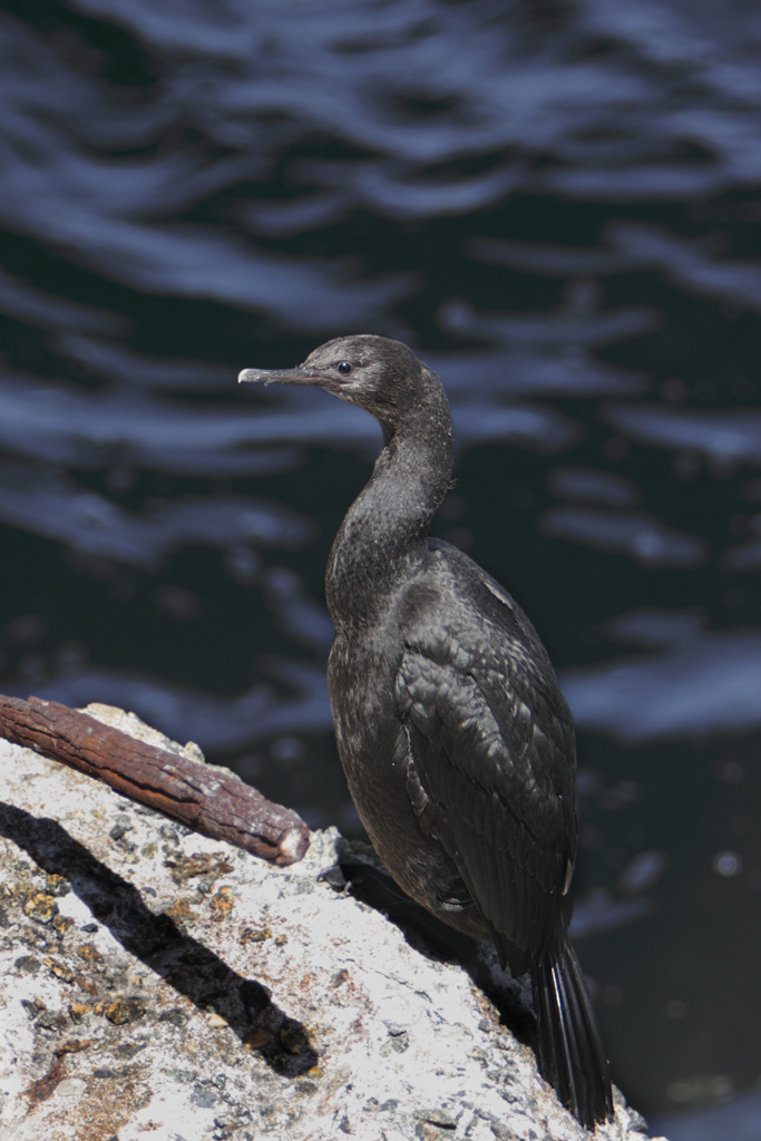 Pelagic Cormorant Phalacrocorax pelagicus full-grown nestling, Monterey Bay, California.